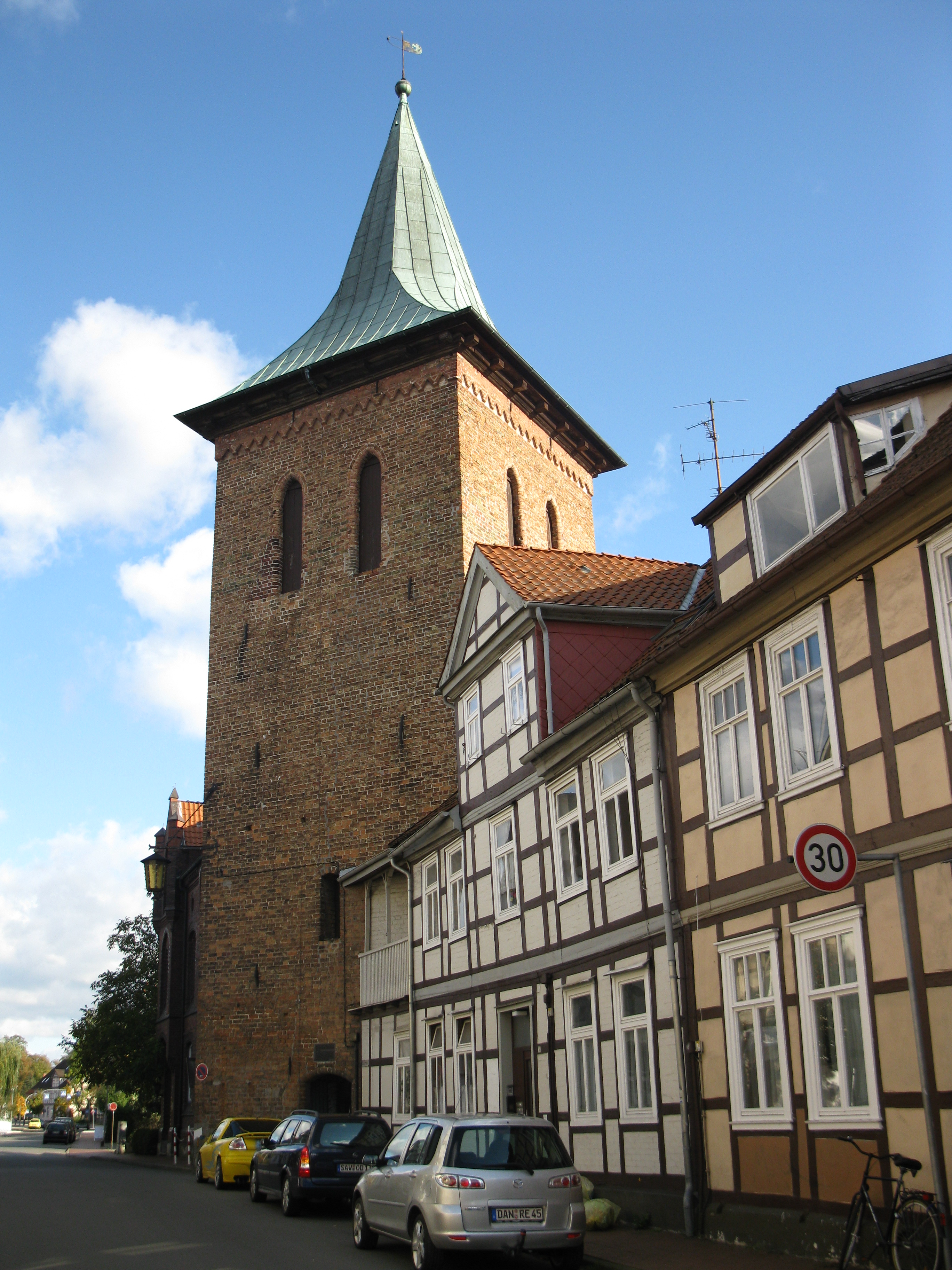 Bell tower, rest of medieval fortification, Luechow, Germany